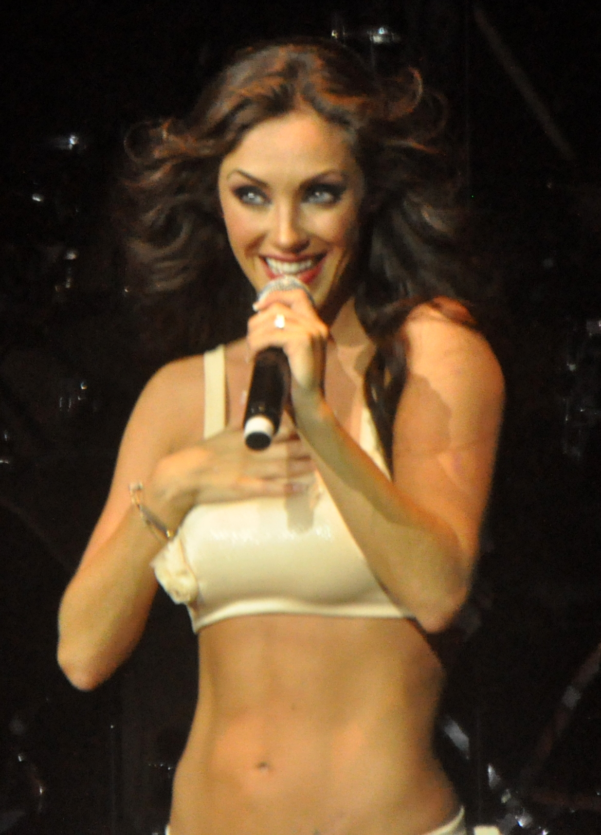 Anahí Puente performing in Sao Paulo - Via Funchal, March 2011.